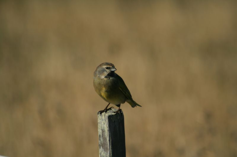 A White-bridled Finch in Sea Lion Island, Sea Lion Island.